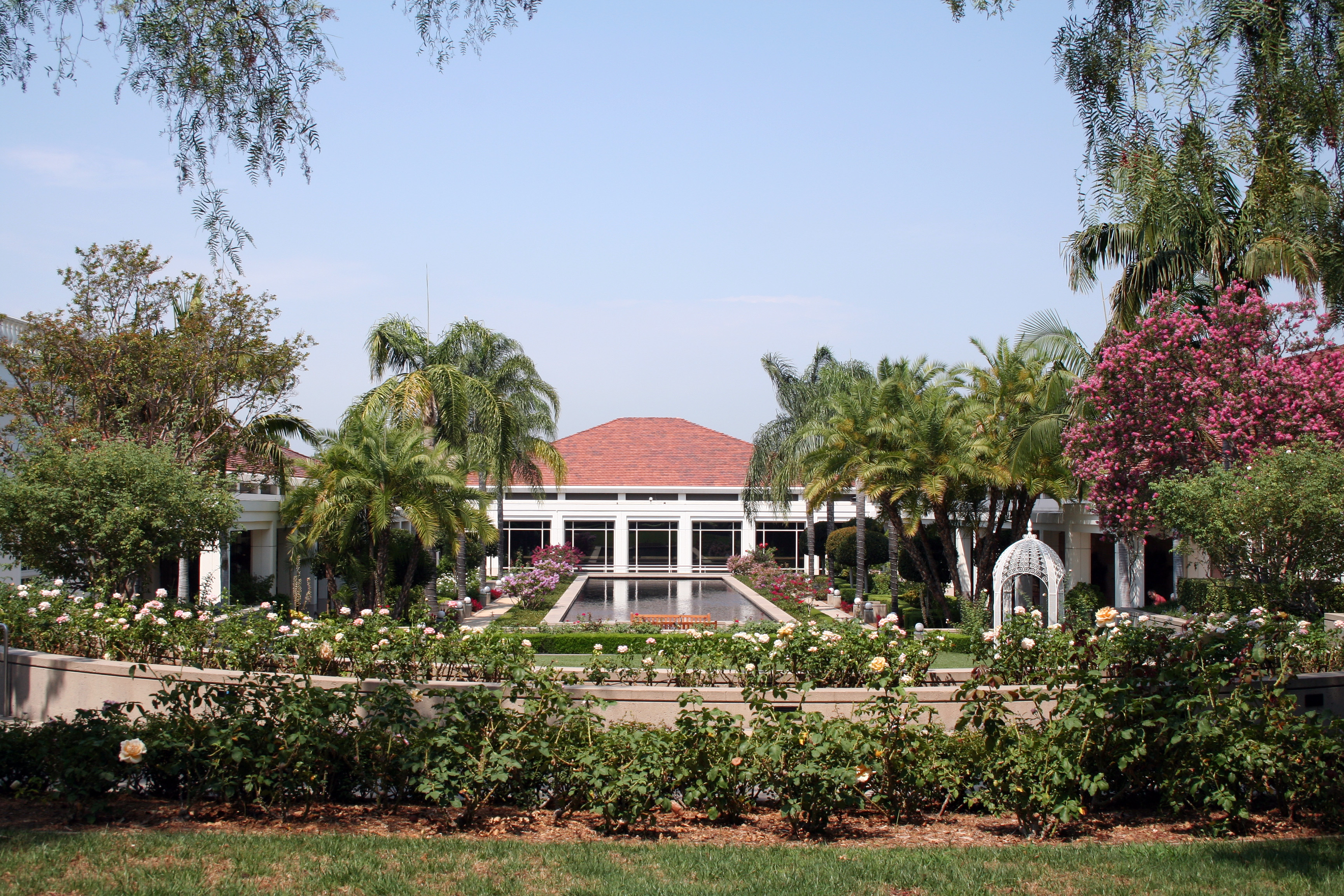 Gardens at the Richard Nixon Presidential Library - in Southern California. Photographed by me on 27 July 2006. Shari 07:52, 13 August 2006 (UTC)